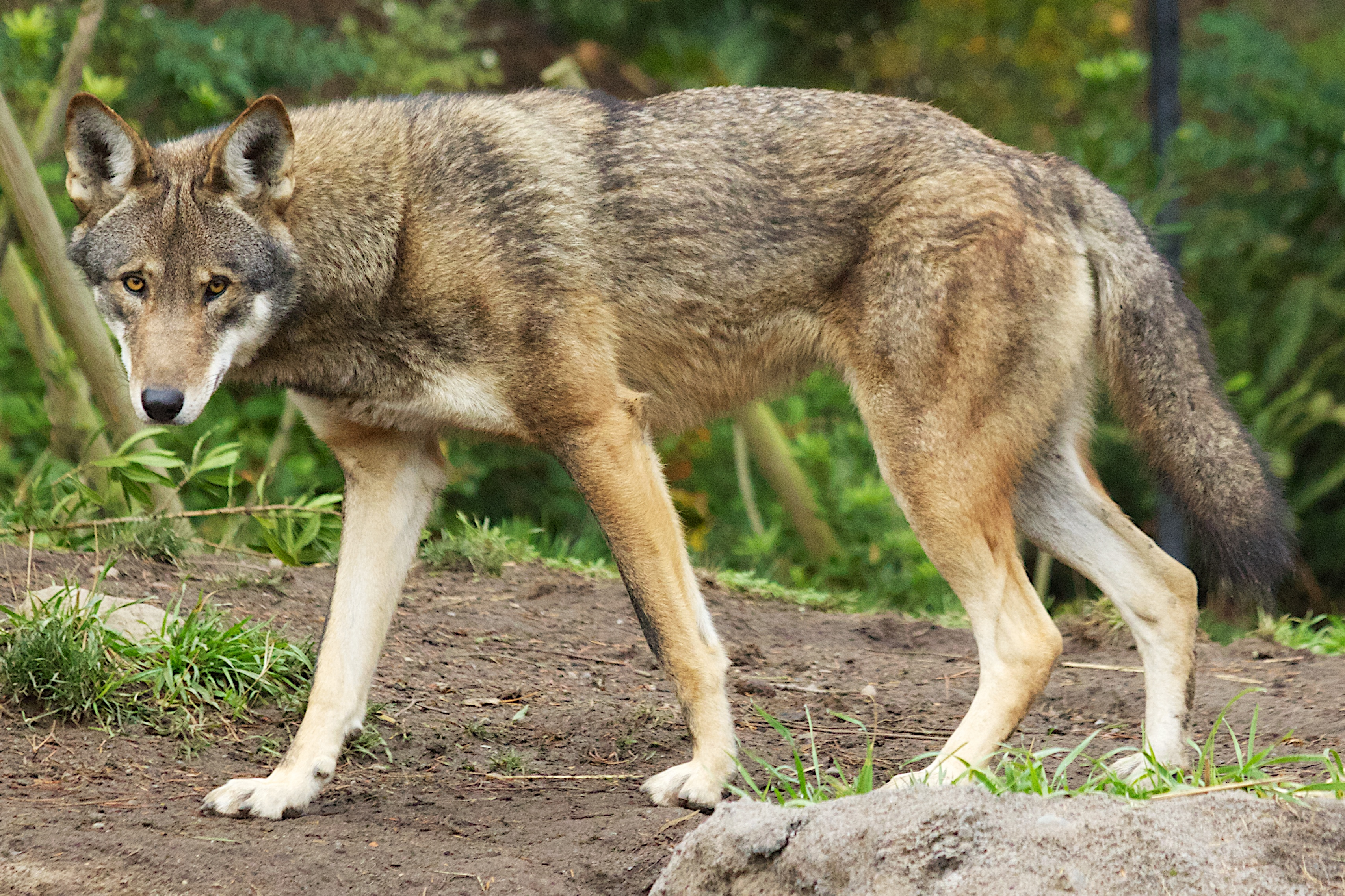 Captive red wolf at Species Survival Plan facility, Point Defiance Zoo and Aquarium (Tacoma, WA). Photo credit: B. Bartel/USFWS